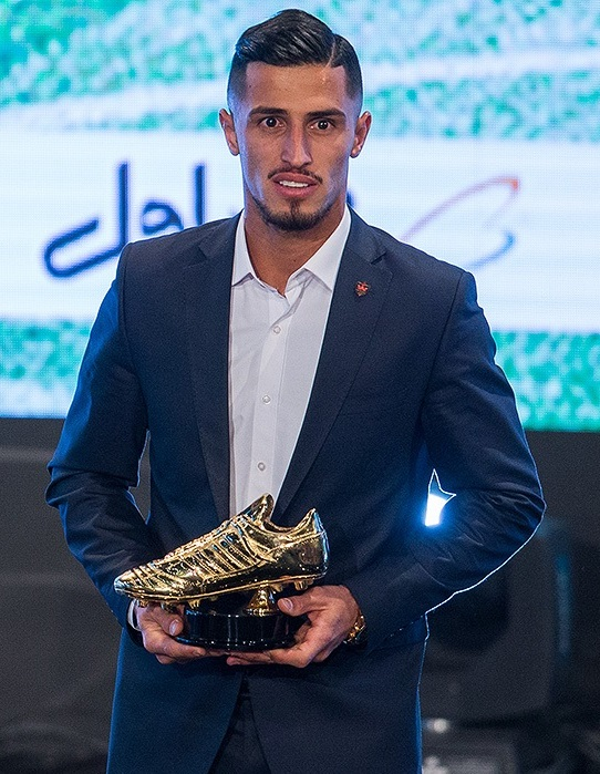 Ali Alipour at IFF's annual awards ceremony